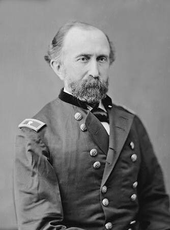 This image is from the Library of Congress and is in the public domain.